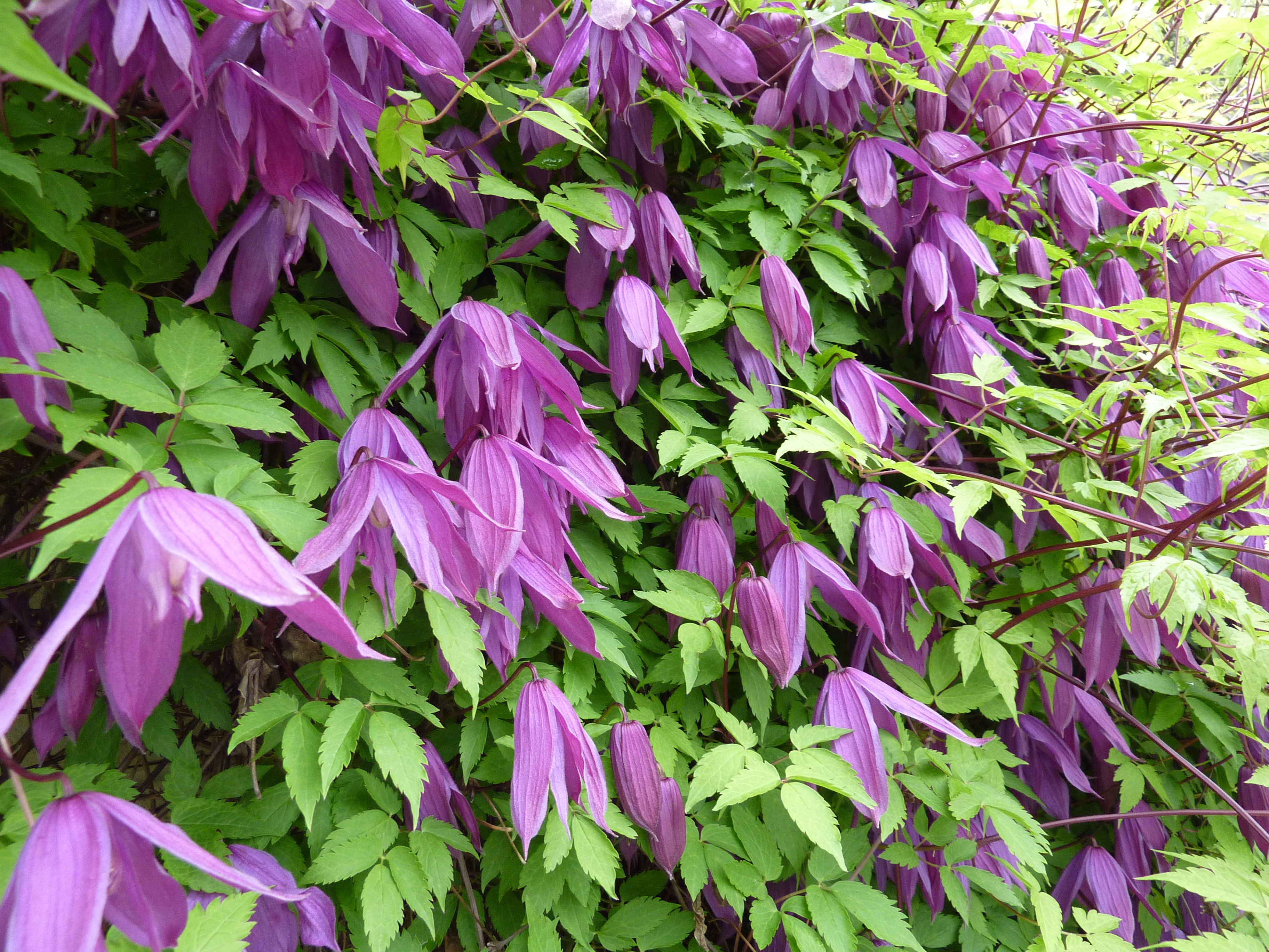 Clematis alpina 'Tage Lundell' flowering in the garden of botanist Robert R. Kowal in Madison, Wisconsin, USA